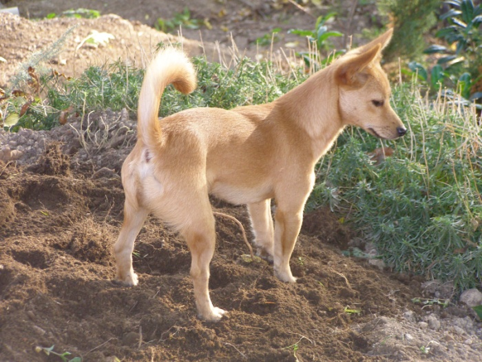 Podengo Português